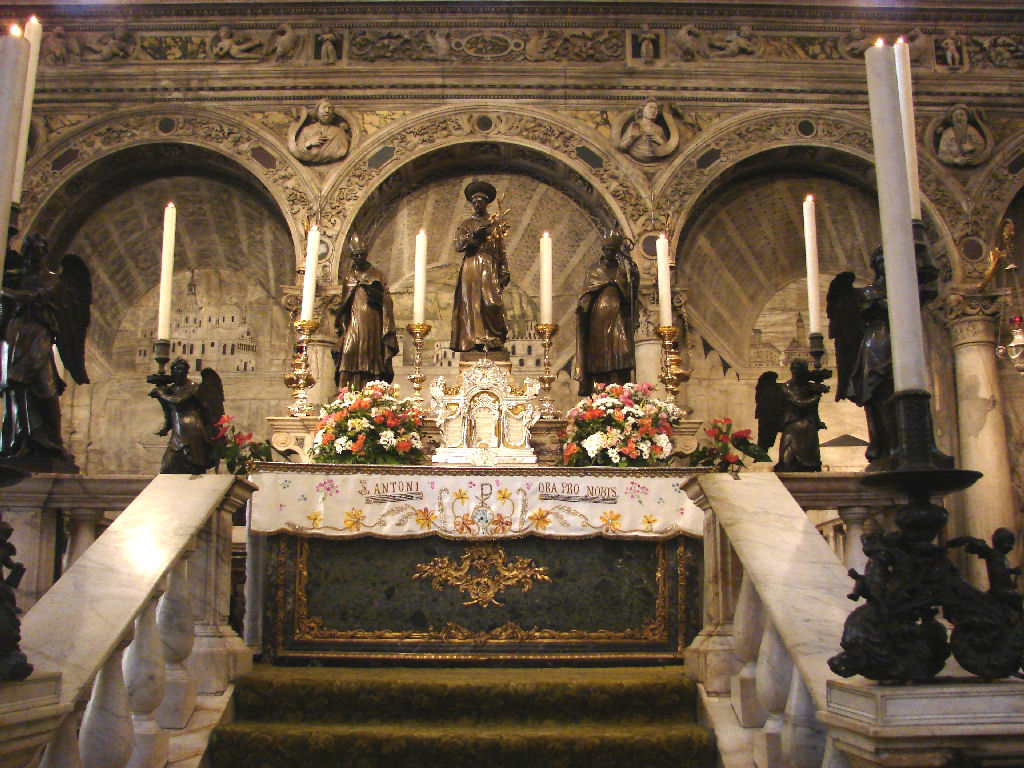 Altar and tomb of Saint Anthony, at Basilica di Sant'Antonio de Padua.